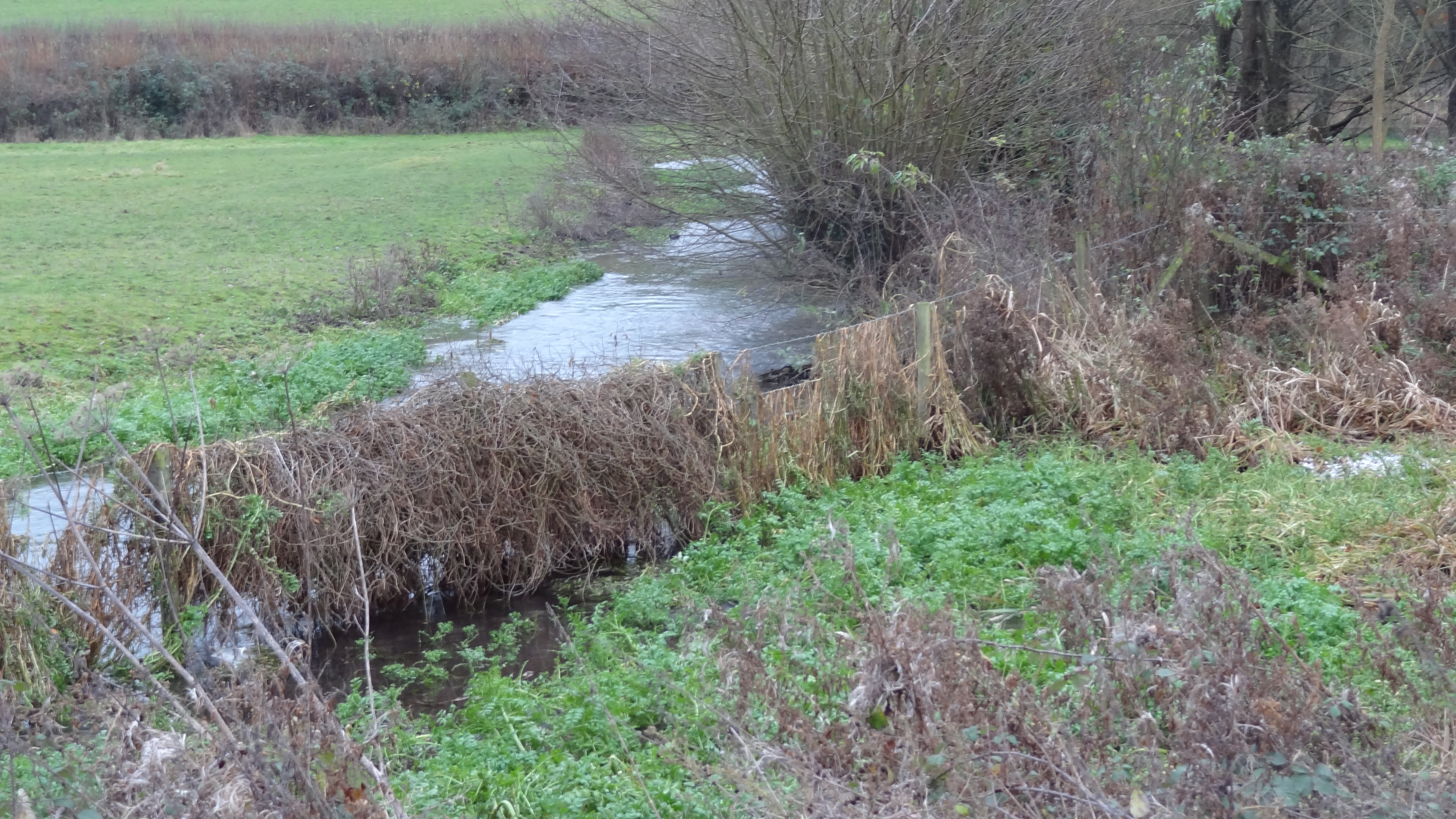 Frogmore Meadows, nature reserve and SSSI in Chenies Bottom, Hertfordshire, and River Chess